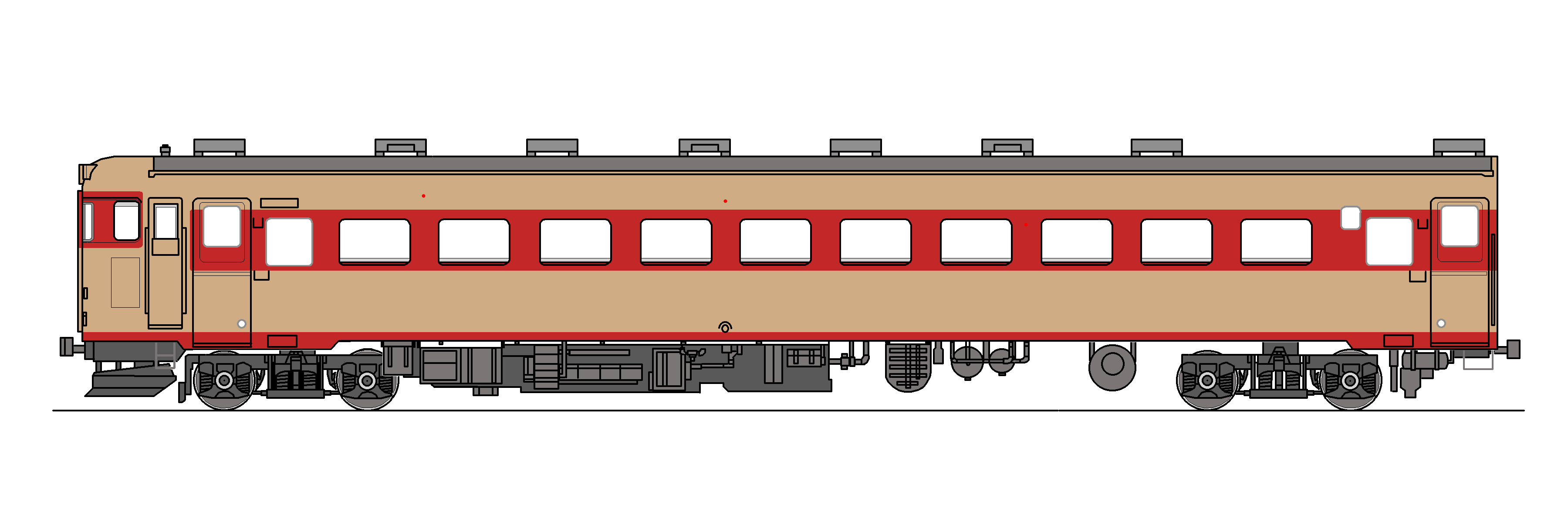 The side view of the DMU type 29 of JNR, Japanese style Car.